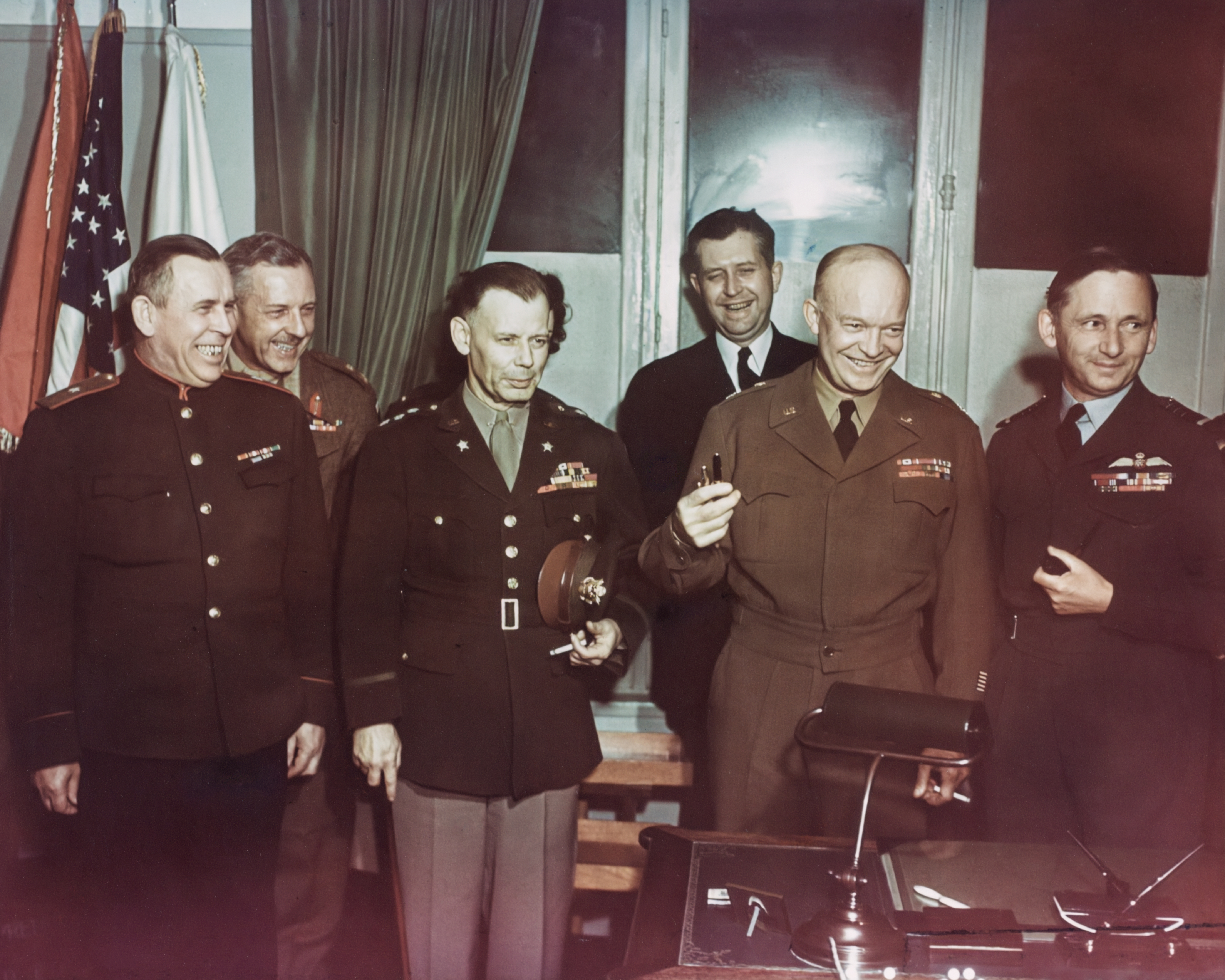 Senior Allied commanders celebrate at Reims, France, shortly after General Eisenhower had addressed the German mission who had just signed the unconditional surrender document. Present are (left to right): General Ivan Susloparov (Soviet Union), Lieutenant General Frederick E. Morgan (British Army), Lieutenant General Walter Bedell Smith (US Army), Captain Kay Summersby (US Army) (obscured), Captain Harry C. Butcher (US Navy), General of the Army Dwight D. Eisenhower (US Army), Air Chief Marshal Arthur Tedder (Royal Air Force).